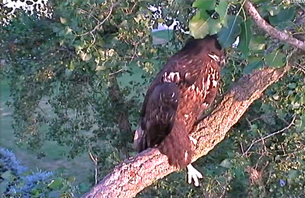 Decorah Bald Eagle juvenile, July 2012 screenshot from Ustream.tv